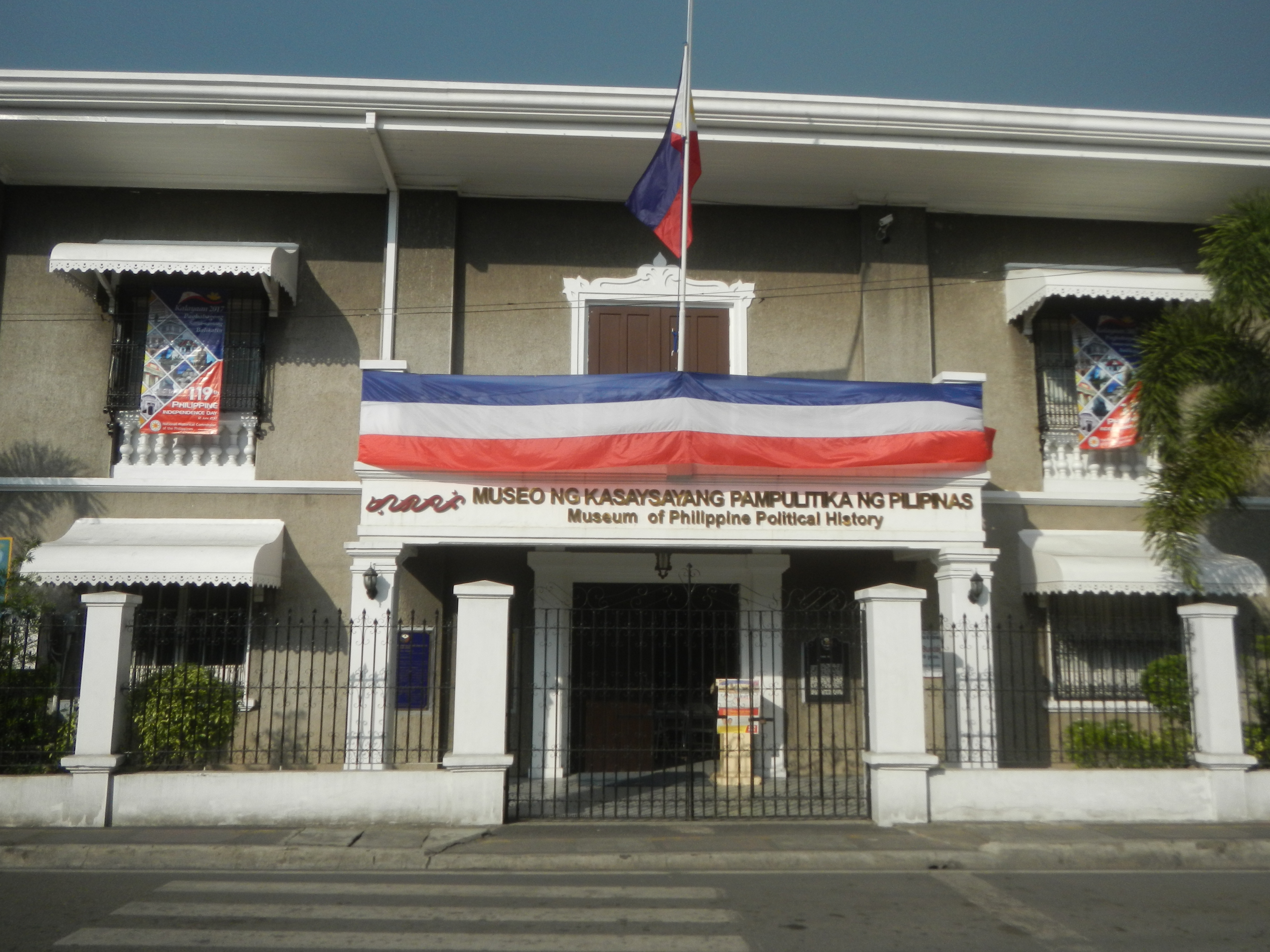 Exterior of the Museo ng Kasaysayang Pampulitika ng Pilipinas - Casa Real Shrine Kalayaan 2017 - 119th Anniversary of the Battle of Alapan, National Flag Days 2017, Heritage Park, Imus, Cavite, National Historical Commission of the Philippines Museum of Philippine Political History Casa Real 14°50'39"N 120°48'41"E Shrine Museum Museum Curator Ms. Ma. Antonia T. Jimenez under the Museum of Philippine Political History (Museo ng Kasaysayang Pampulitika ng Pilipinas), formerly located at the ground floor of the National Historical Commission of the Philippines (NHCP) Marker Date: June 11, 1990 Restored Re-opened on October 12, 2016 in Barangay Caingin ,Malolos City, Bulacan Bulacan province (Note: Judge Florentino Floro, the owner, to repeat, Donor Florentino Floro of all these photos hereby donate gratuitously, freely and unconditionally all these photos to and for Wikimedia Commons, exclusively, for public use of the public domain, and again without any condition whatsoever).